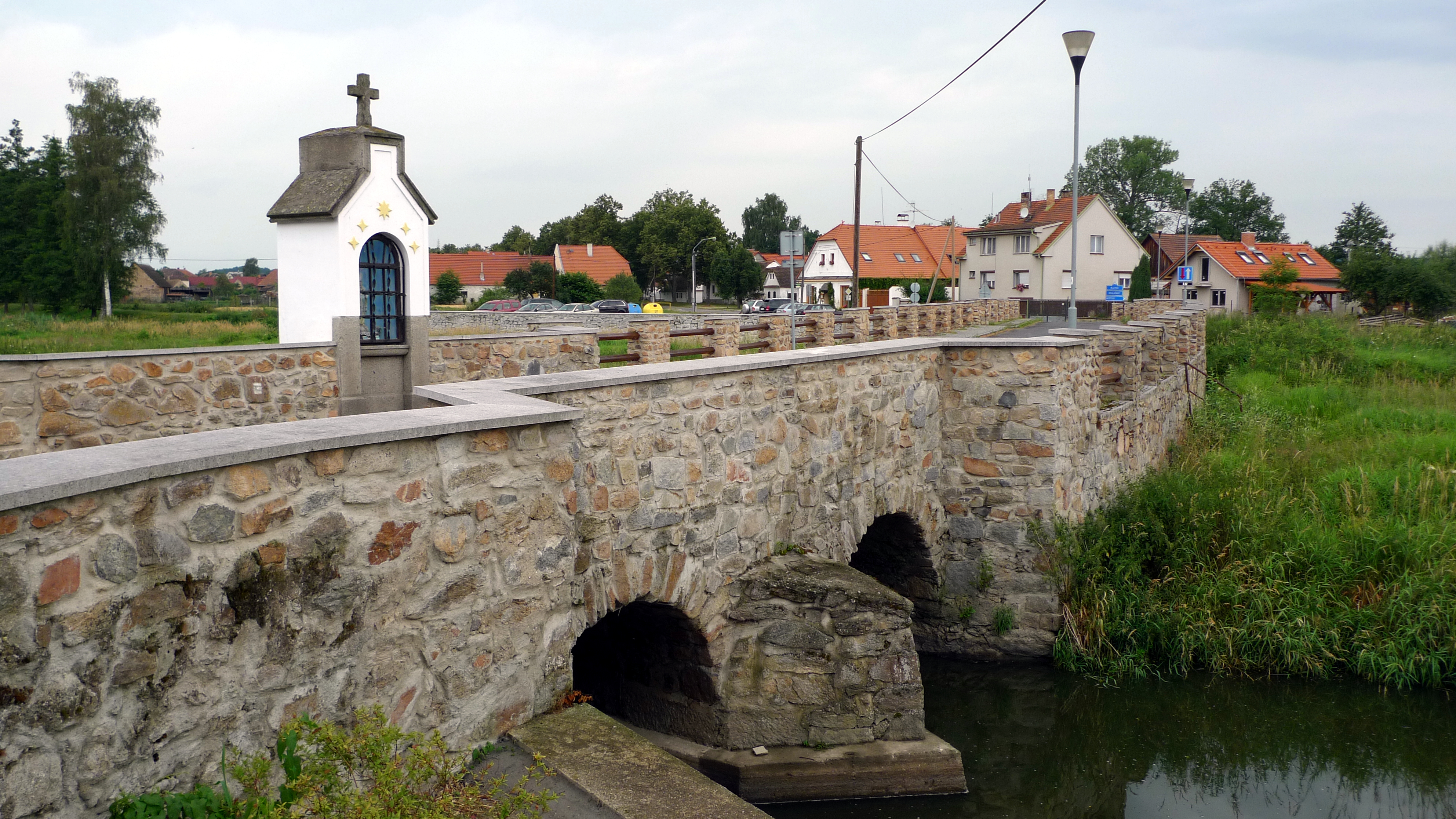 Village of Buzice in southern Bohemia.